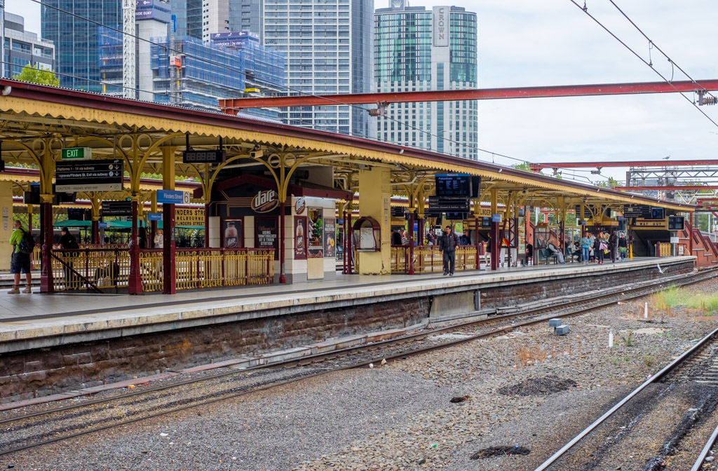 Track 6 at Flinders Street Station, Melbourne